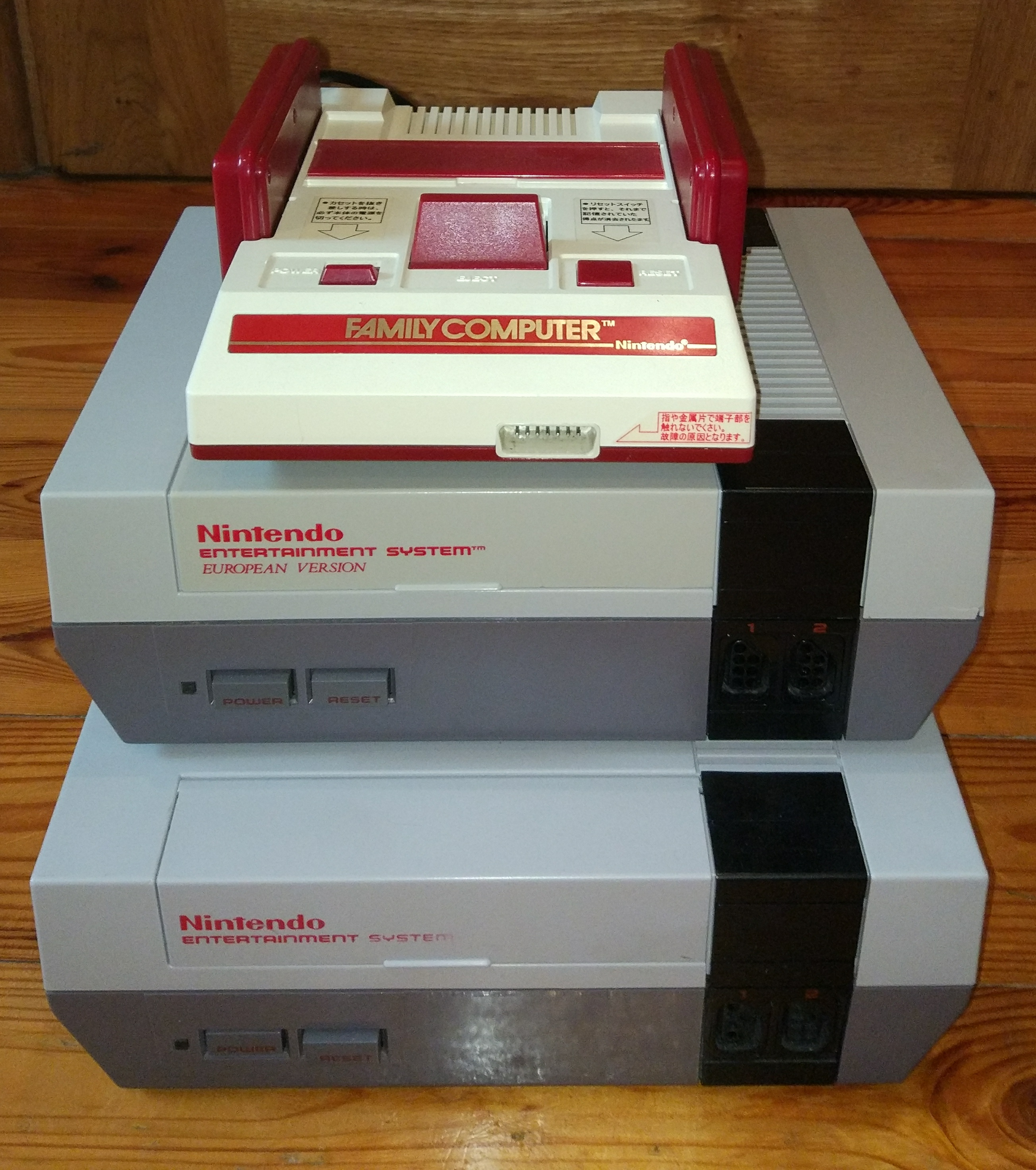 NES Famicom PAL NTSC European American Japanese